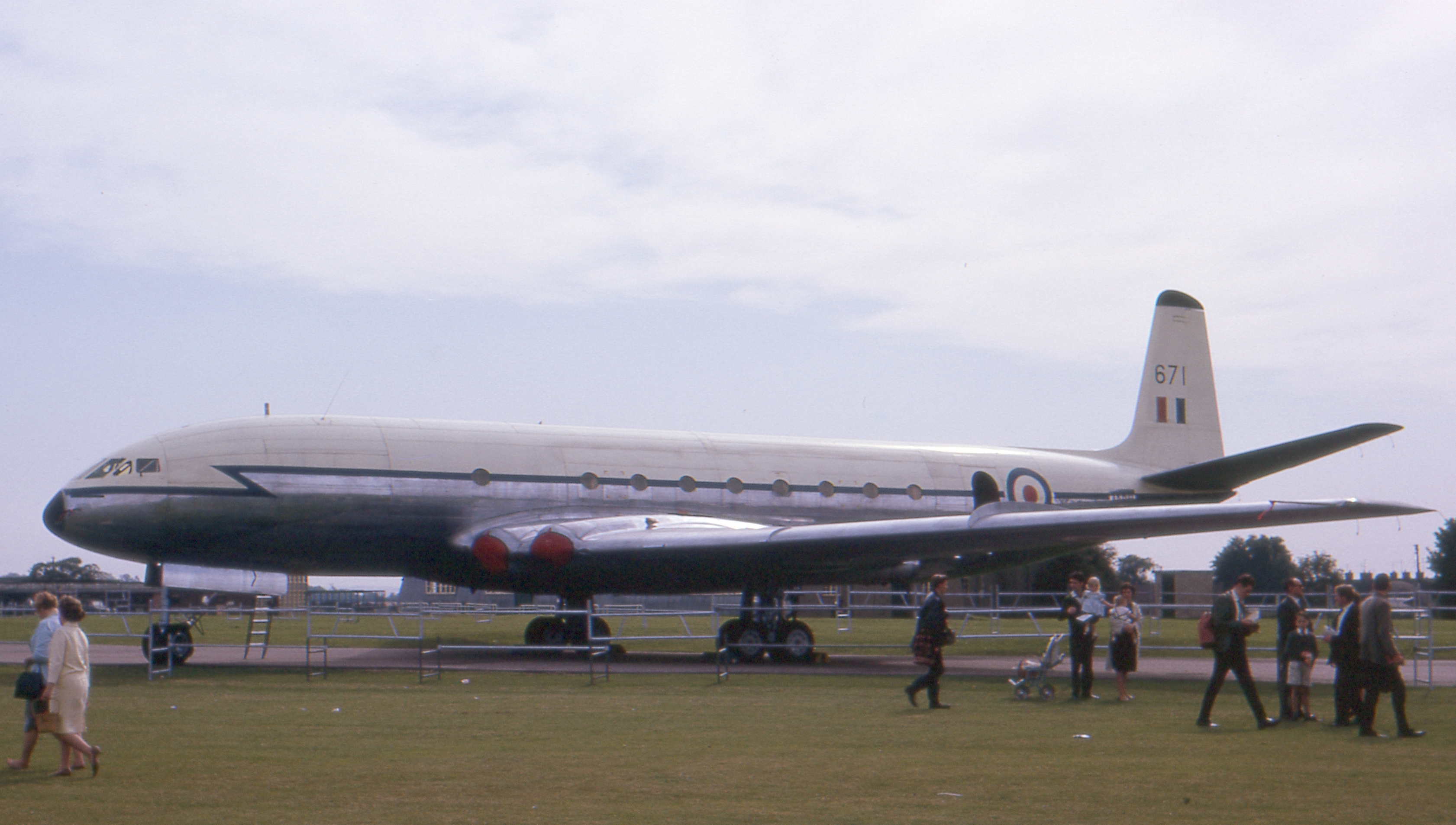 de Haviiland Comet CMk.2, XK671 Aquila at RAF Waterbeach, Cambridgeshire on Battle of Britain Day 14.